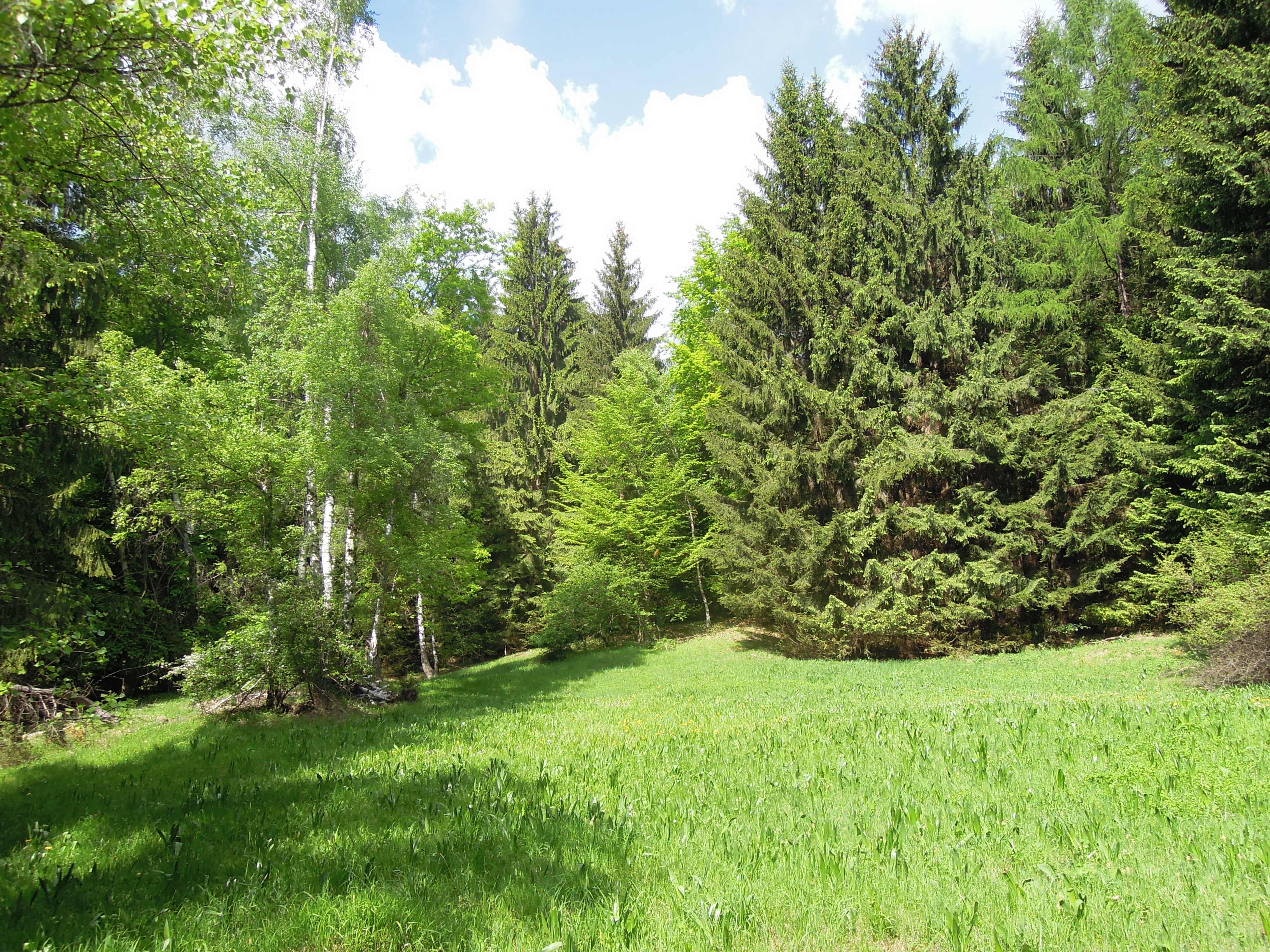 Lúčky - Rověnky natural monument in Růžďka, Vsetín District, Zlín Region, Czech Republic